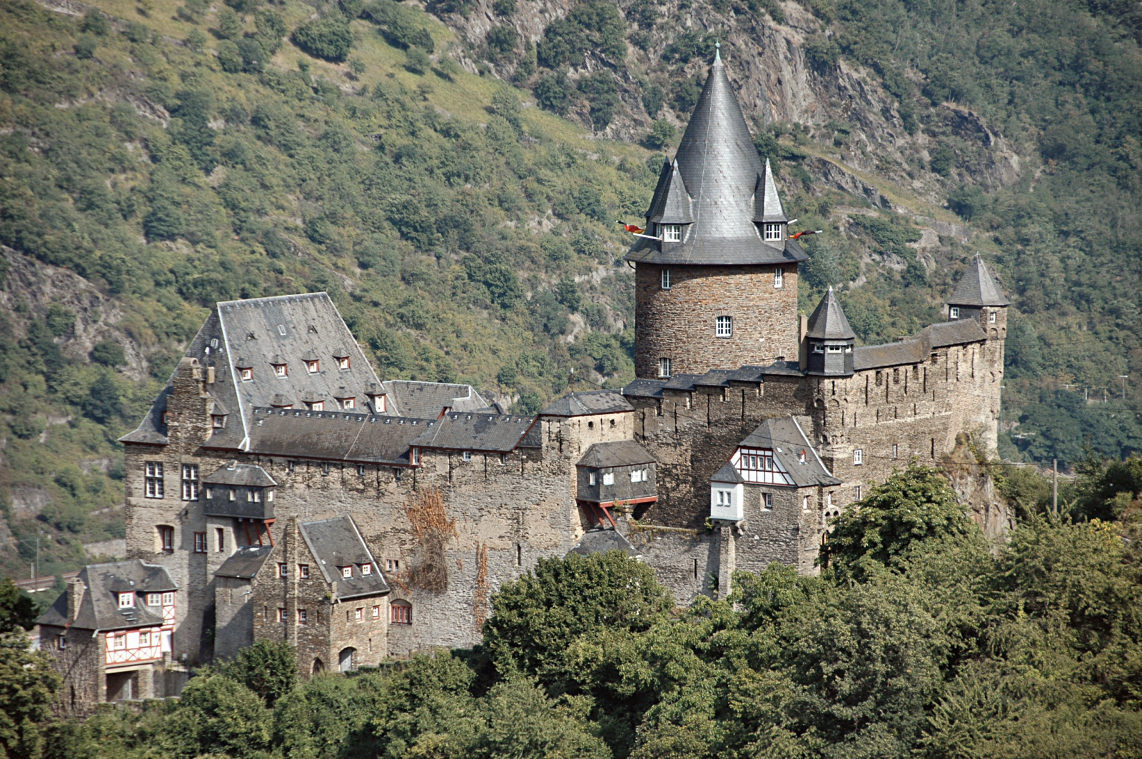 Stahleck Castle in Bacharach, north-western aspect